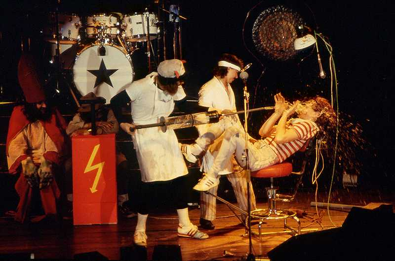 Saltmanshow with Toni Moff Mollo as Dentist Dr. Salzmann, Ballermann as Sister Devil und Eroc as Patient